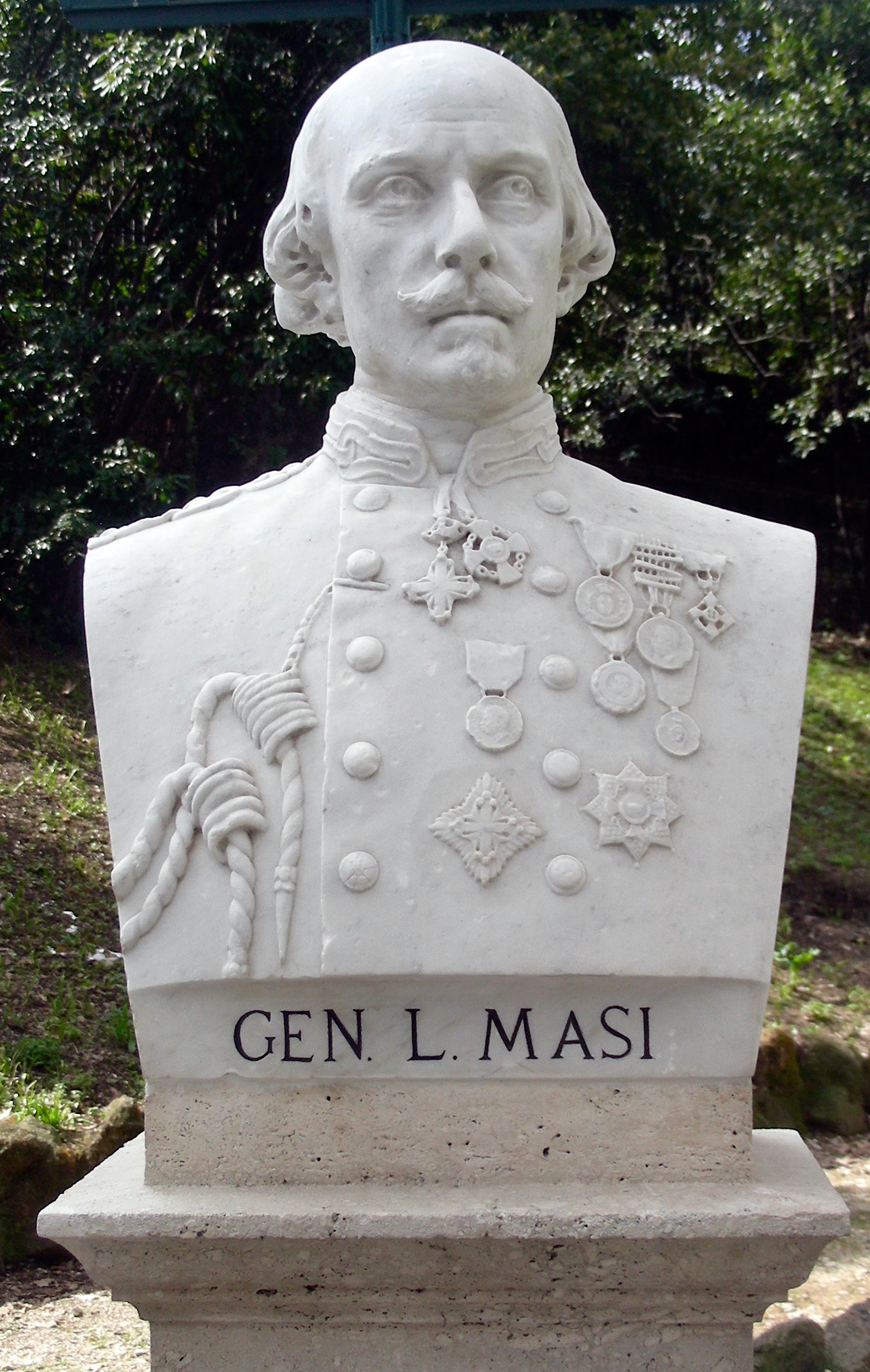 Rome, Park of Gianicolo, Bust of Luigi Masi (1814-1872) after 2011 restoration; sculptor Belpassi 1897